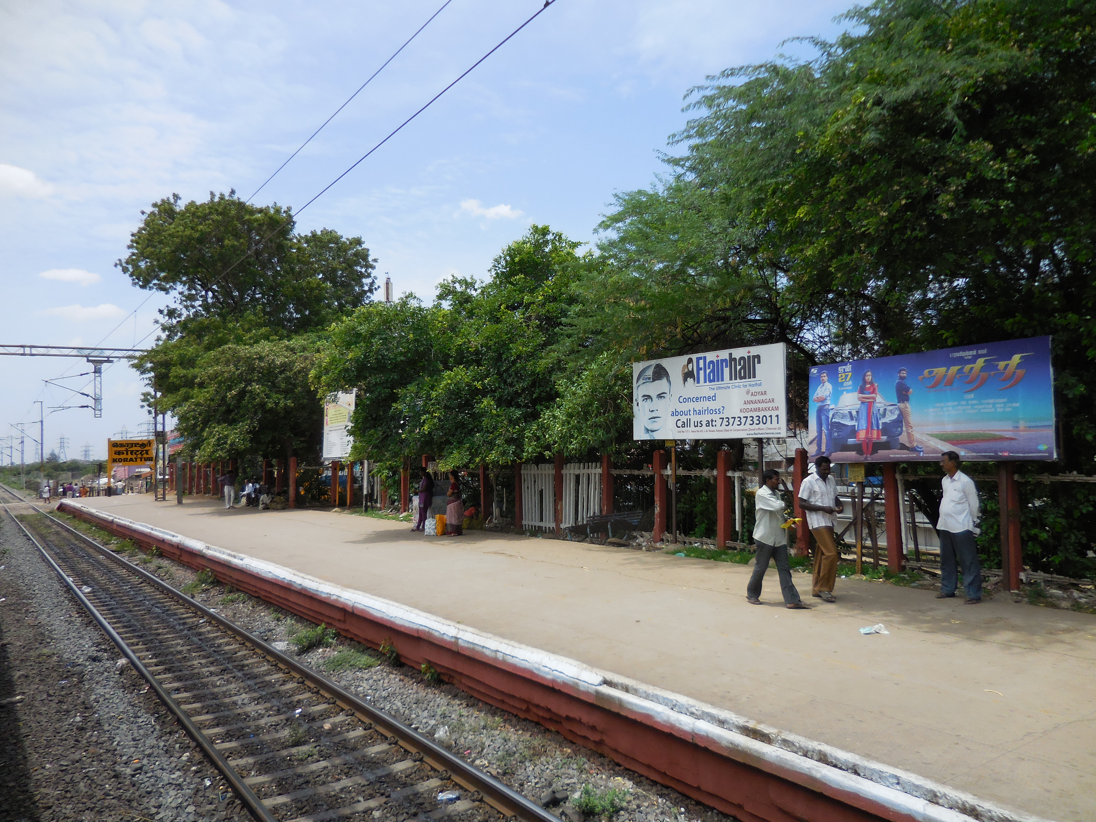 A view of Korattur Station, Chennai, towards east, taken on 15 July 2014 at noon.